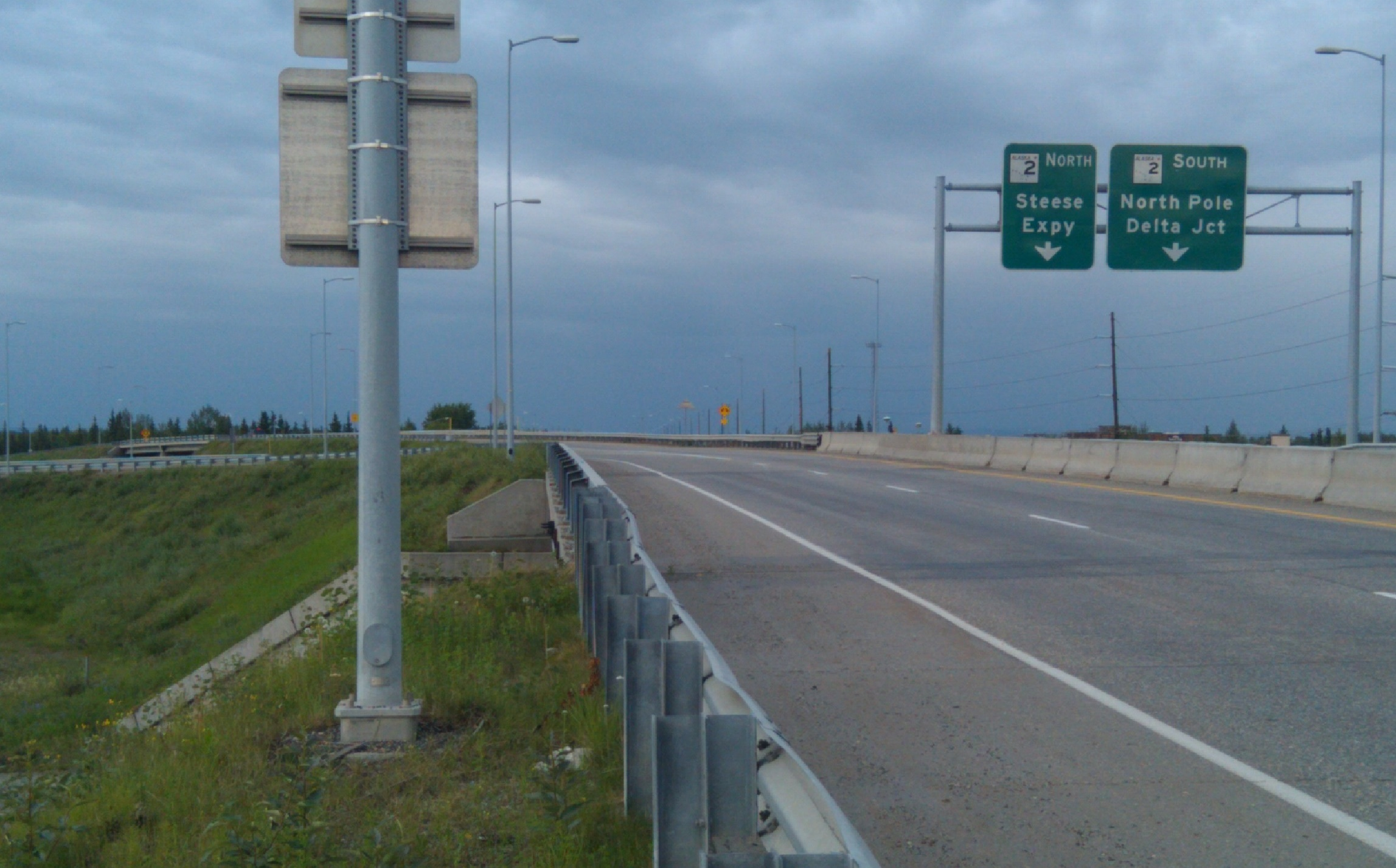 The northern terminus of the George Parks Highway (Alaska Route 3), signed at this end as the Robert J. Mitchell Expressway, taken just west of the overpass of South Cushman Street. Its interchange with the Richardson Highway is in the background.